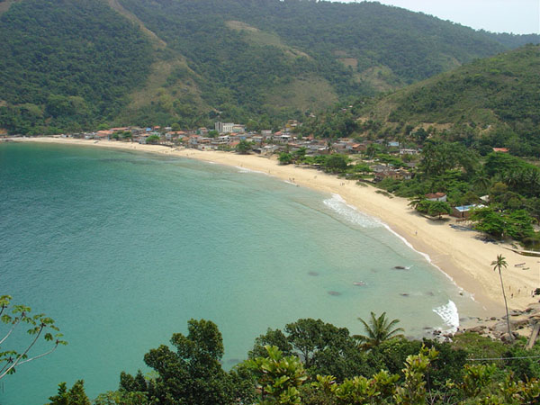 Praia de Provetá.